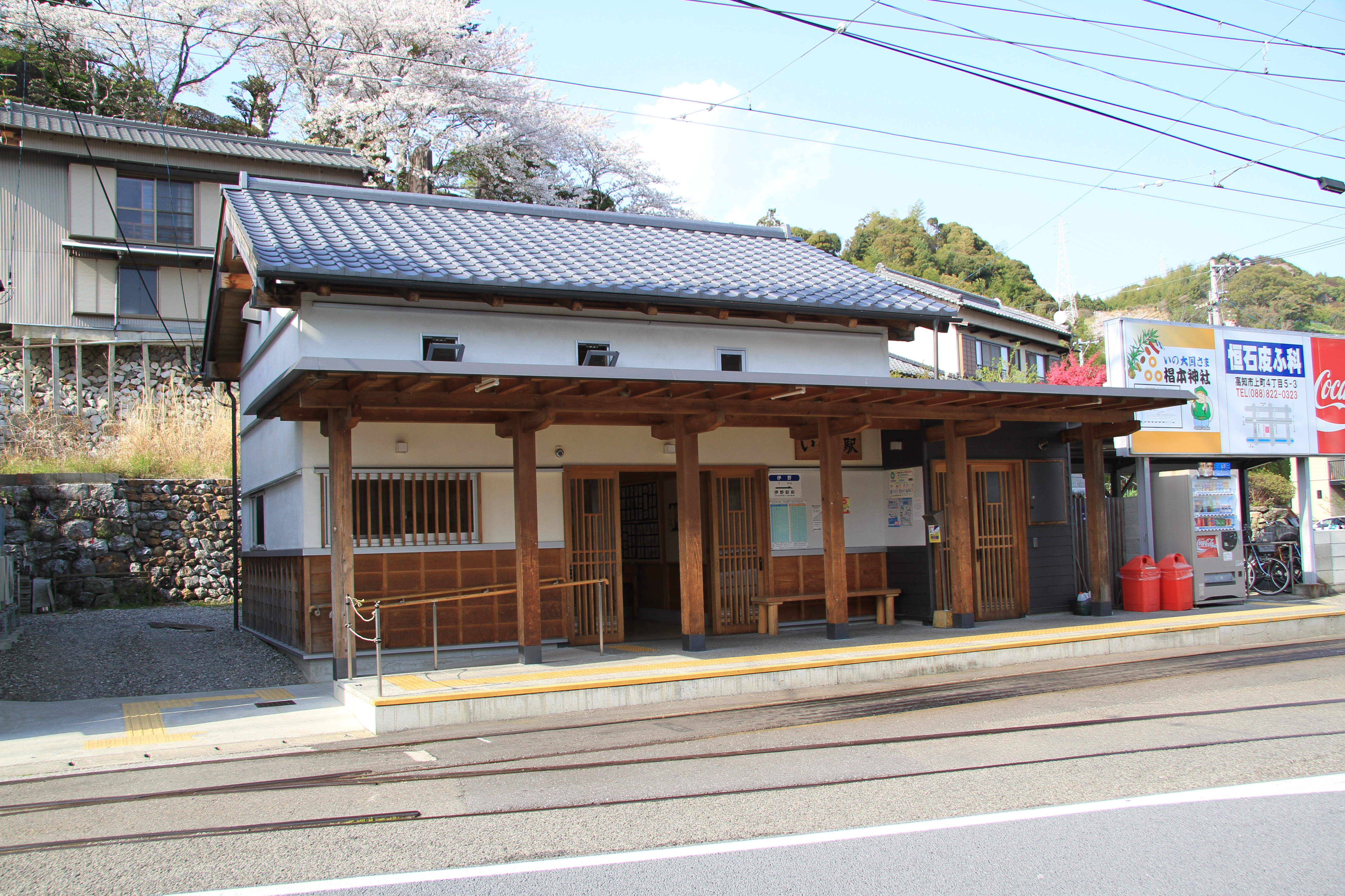 Tosa Electric Railway Ino Station